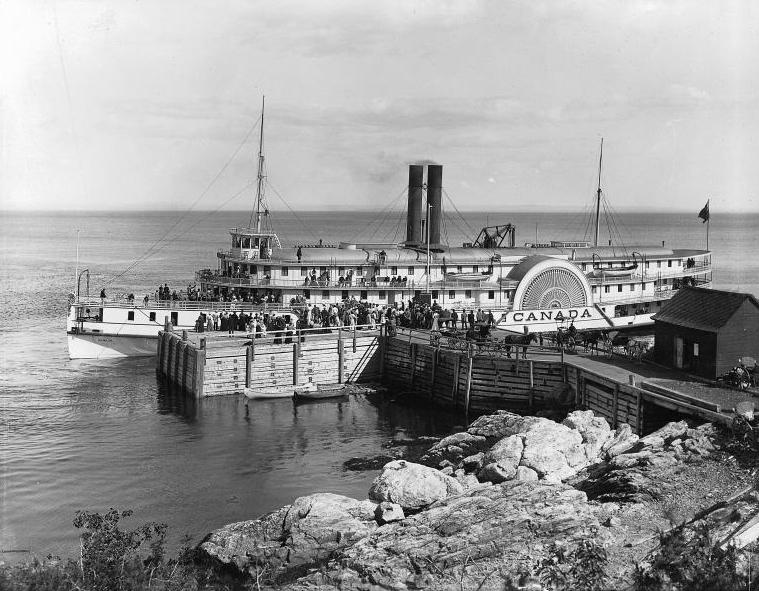 Photograph, S.S. "Canada," Cap à l'Aigle, QC, about 1895, Wm. Notman & Son, Silver salts on glass - Gelatin dry plate process - 20 x 25 cm